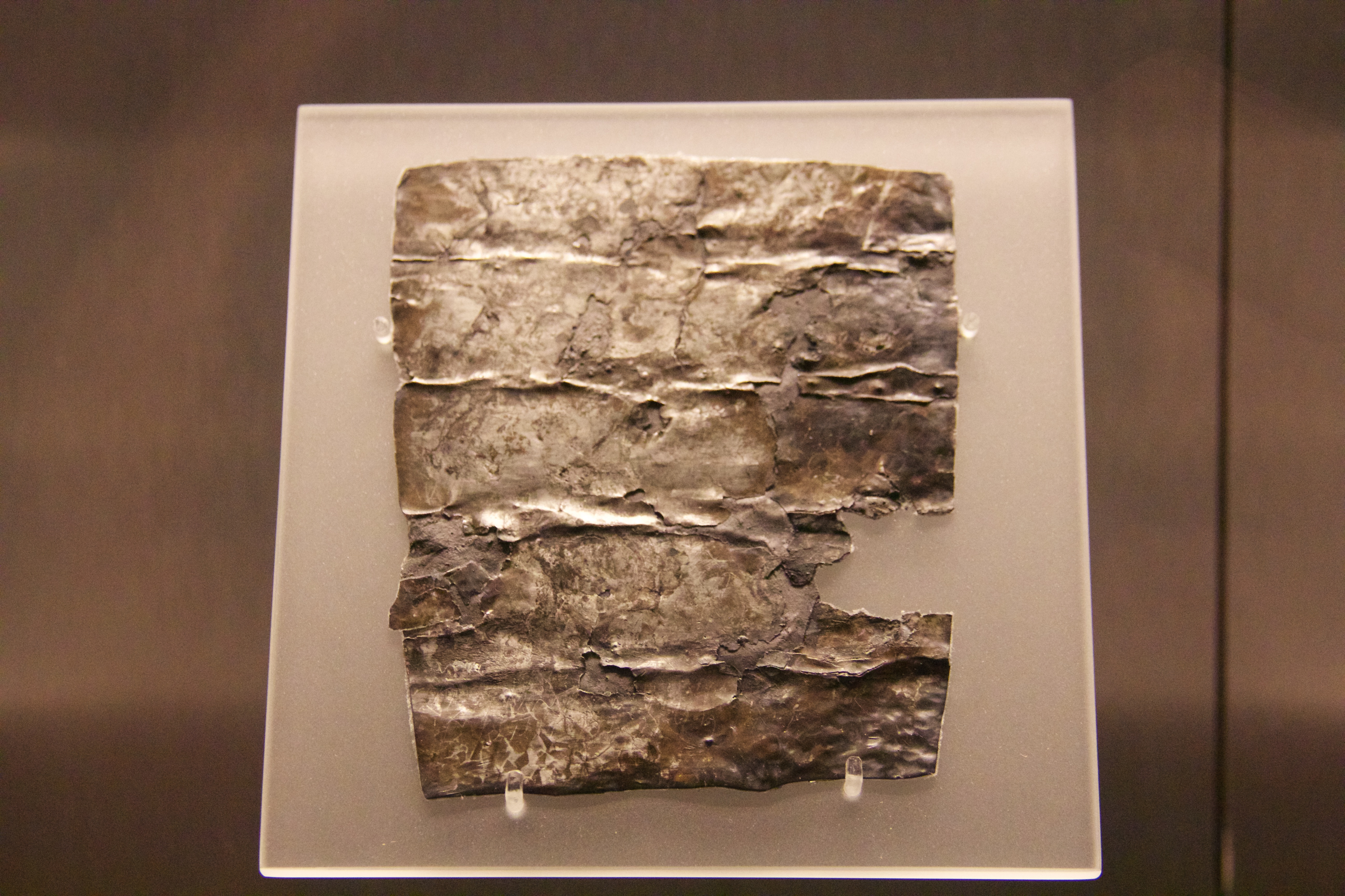 "The Roman curse tablets from Bath Britain's earliest prayers. These tablets are inscribed on the UNESCO Memory of the World register of significant documentary heritage. They are the only documents from Roman Britain on that list. Complaint about theft of a cloak and bathing tunic. Theft was always a risk in the public baths if you could not afford a slave to watch over your clothes." From the Temple Courtyard. Roman baths, Bath, UK